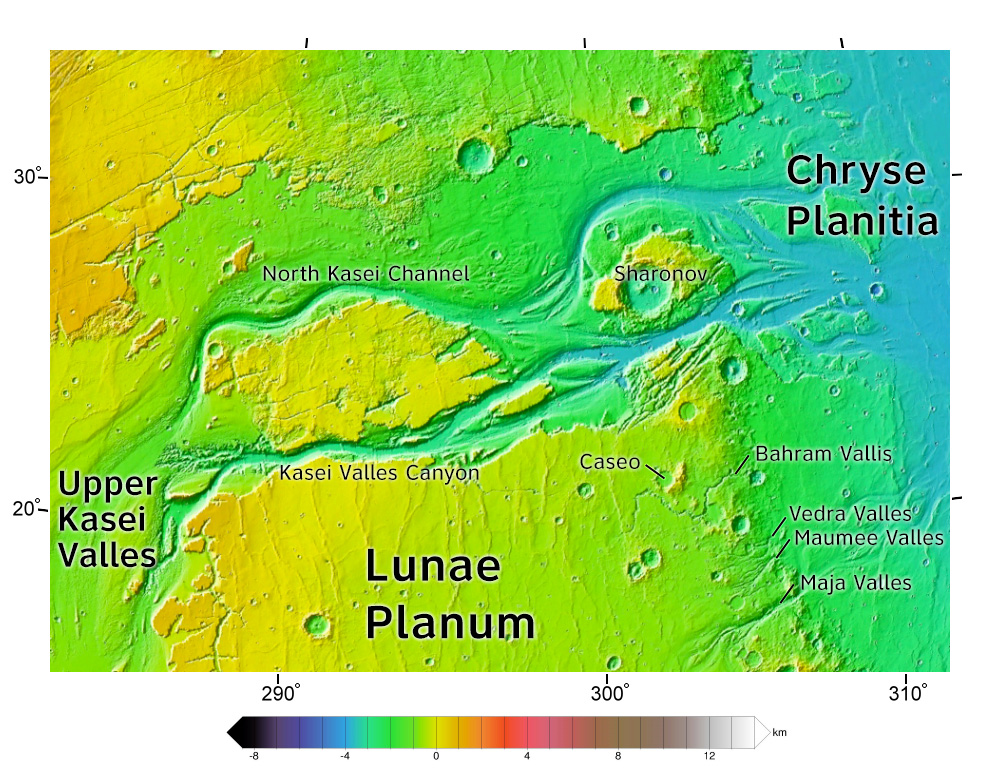 Topography map of Kasei Valles, Mars.